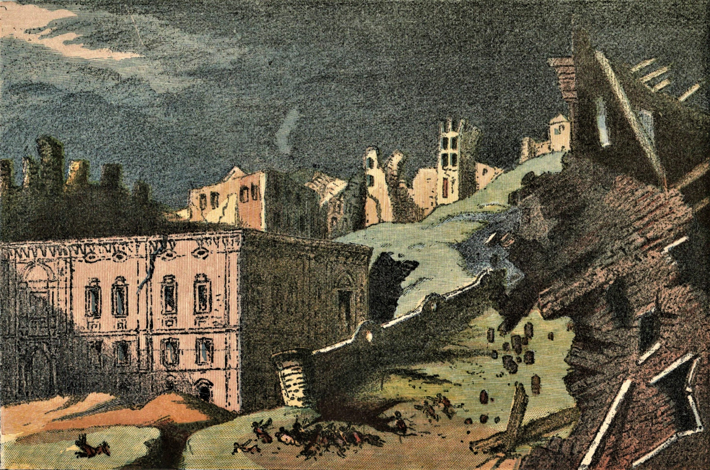 A depiction of the Great Lisbon Earthquake, which occurred on 1 November 1755